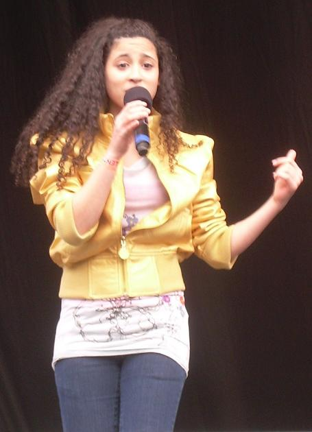 P-Star as her Electric Company character, Jessica Ruiz, performing at the Annual White House Easter Egg Roll in Washington, DC, USA on April 13th, 2009.